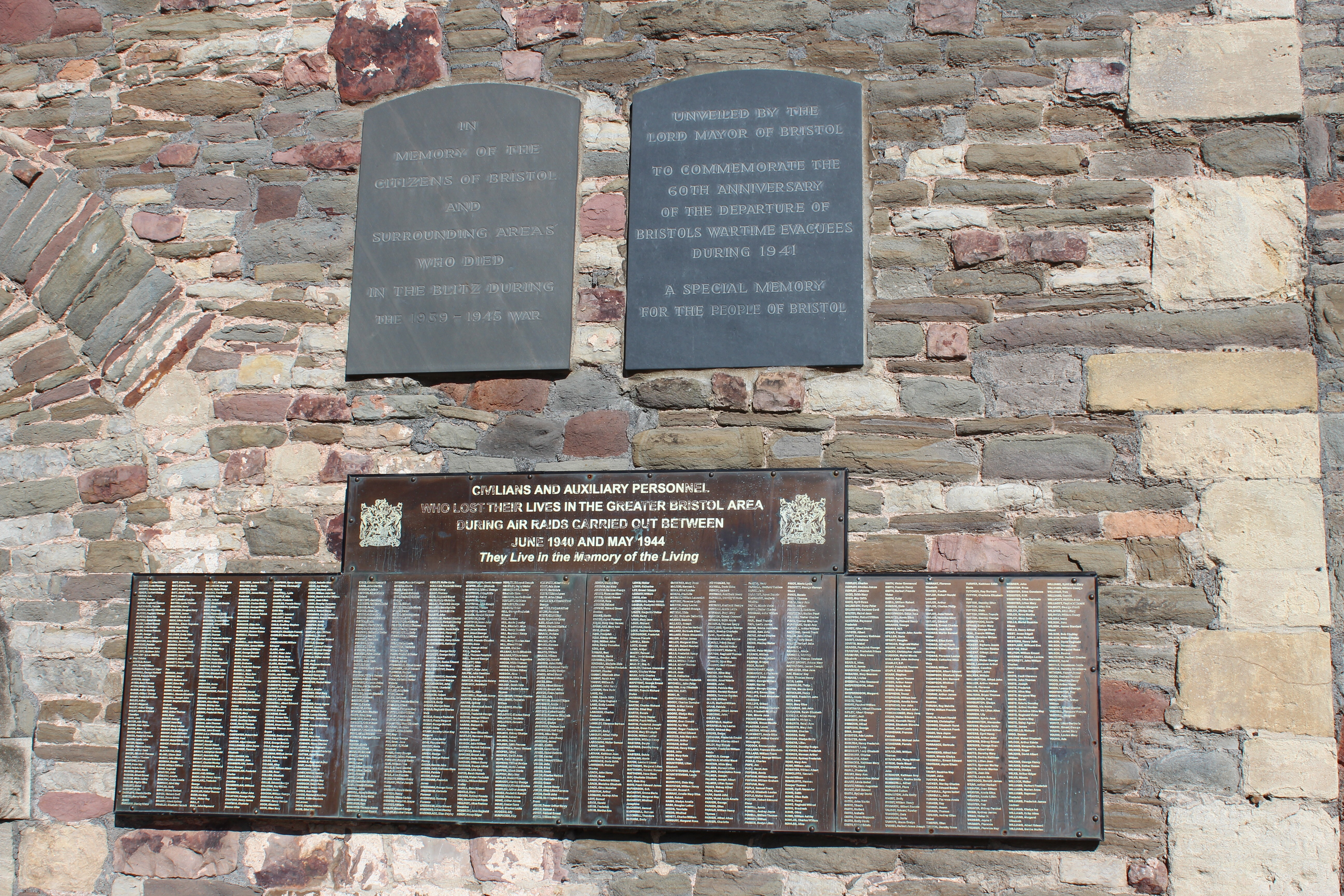 The memorial to the fallen on St Peter's church in Castle Park, Bristol.